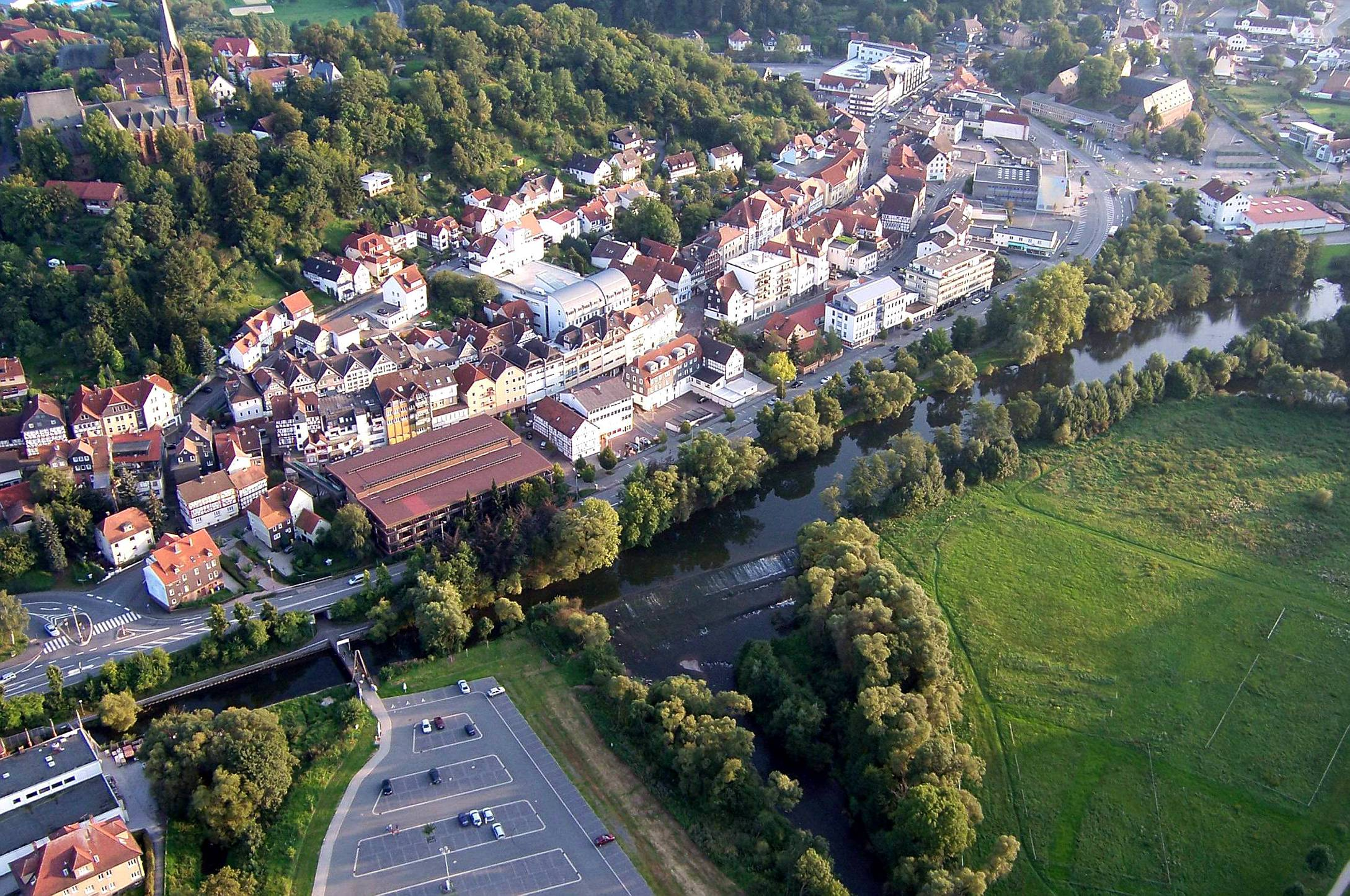 Luftaufnahme aus privatem Rundflug mit "Cessna 172 S". Aerial view from sightseeing flight with "Cessna 172 S".